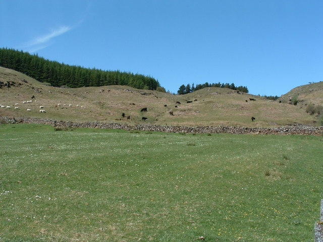 Mixed farming.. For the city-bound, the big black things are cows, the smaller white things are sheep.